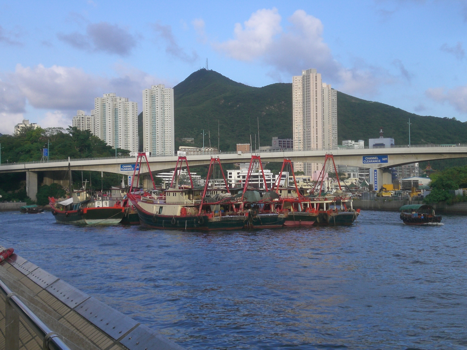 香港仔海濱公園望鴨脷洲大橋 南朗山